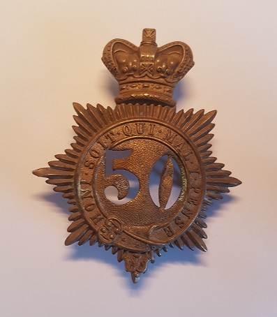 50th Regiment of Foot Cap Badge from personal collection